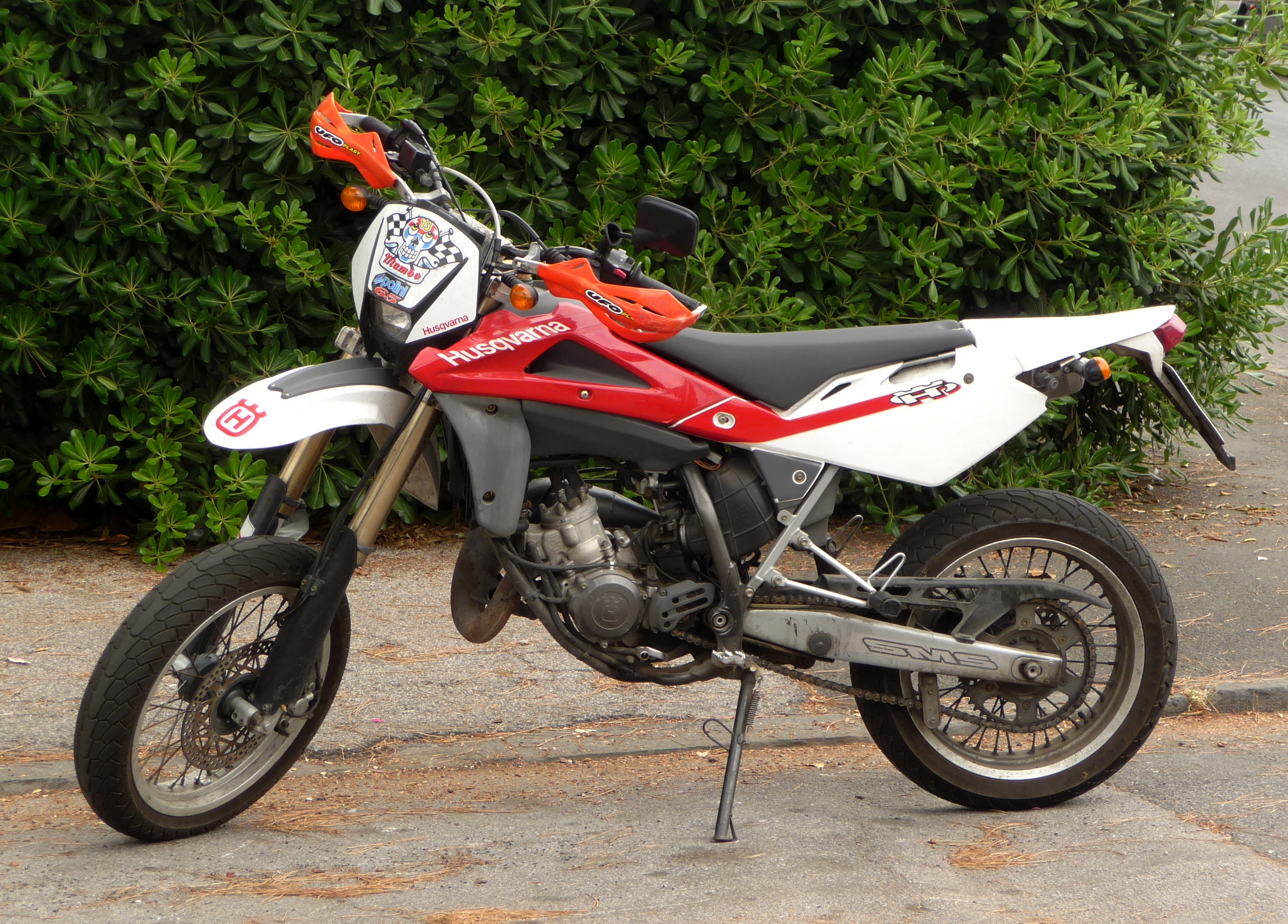 Husqvarna motorcycle